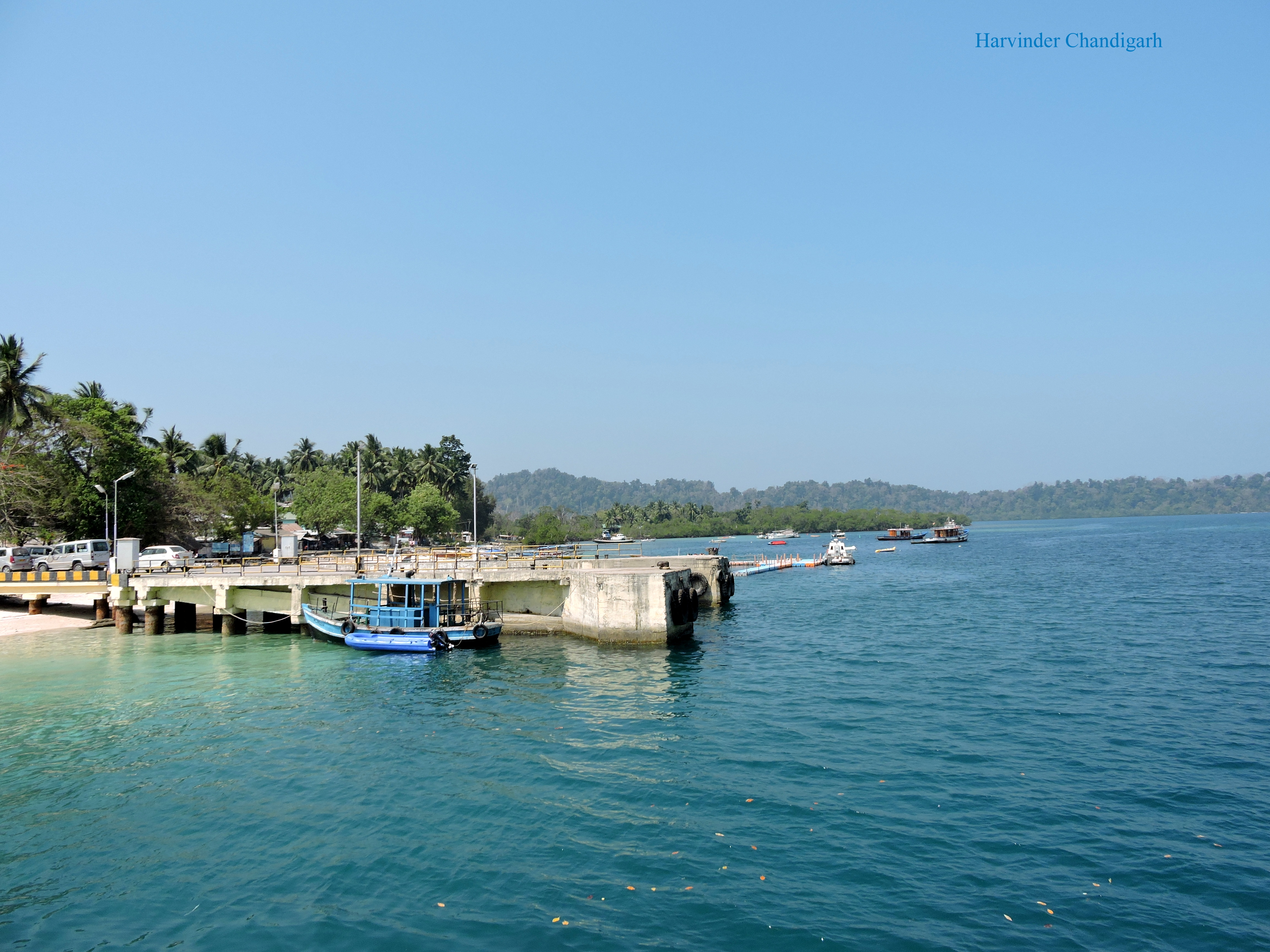 Jetty ,Havelock Island , Andaman , India